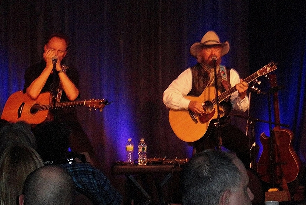 Jonathan Edwards and Michael Martin Murphey performing together at The Bull Run Restaurant in Shirley, Mass. on Oct. 14, 2012.